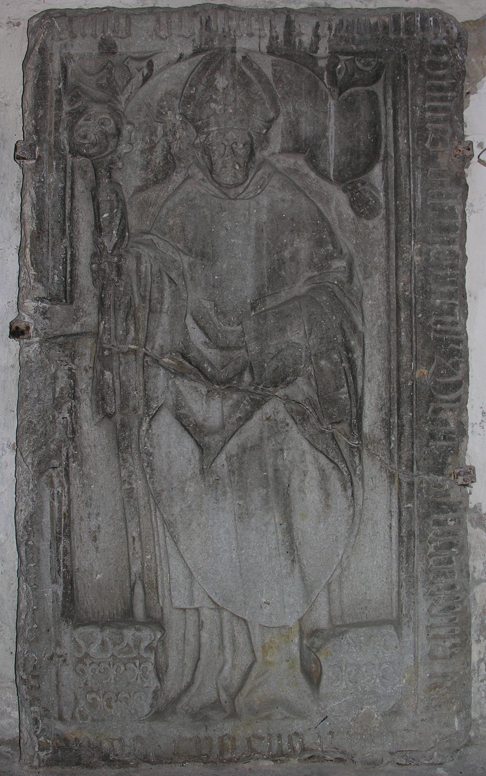 Nagrobek wrocławskiego biskupa pomocniczego Jana Ambrosii